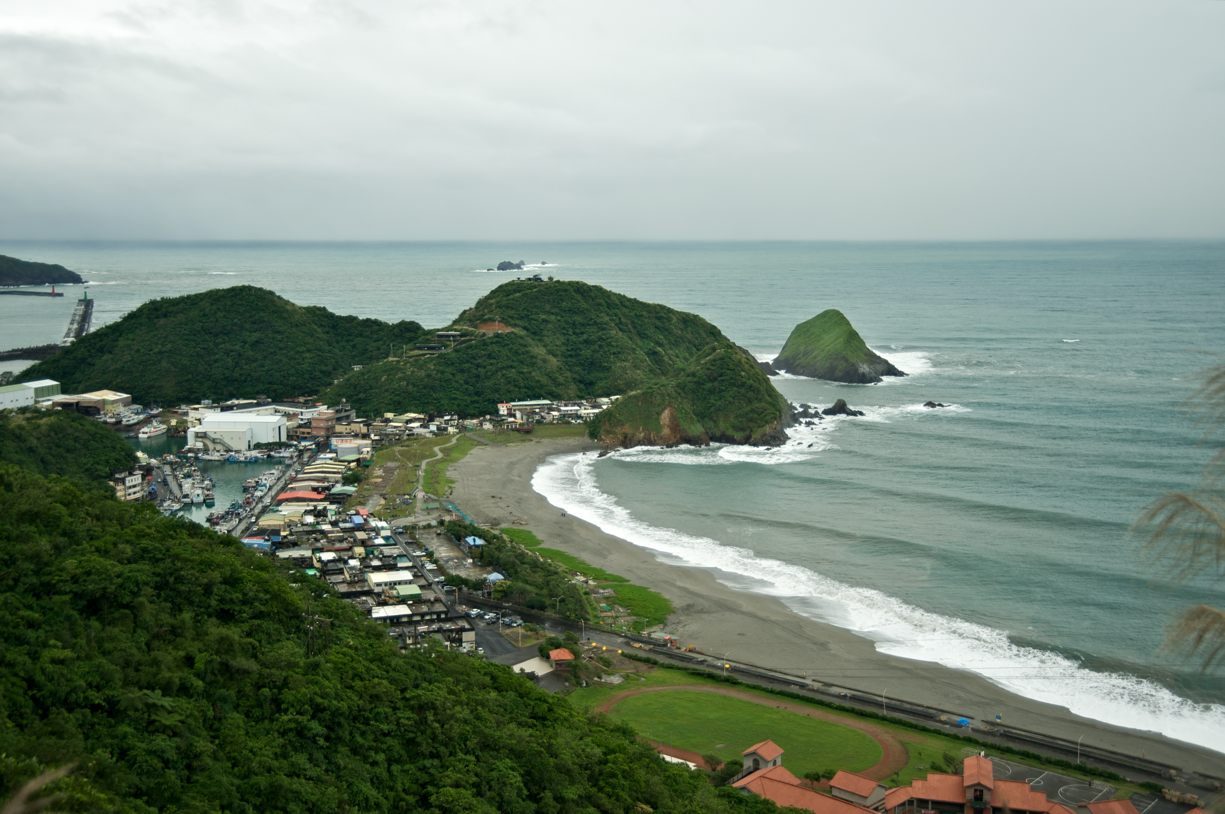 SuAo Port as seen from the SuHua Highway, a scenic drive on the east coast of Taiwan.